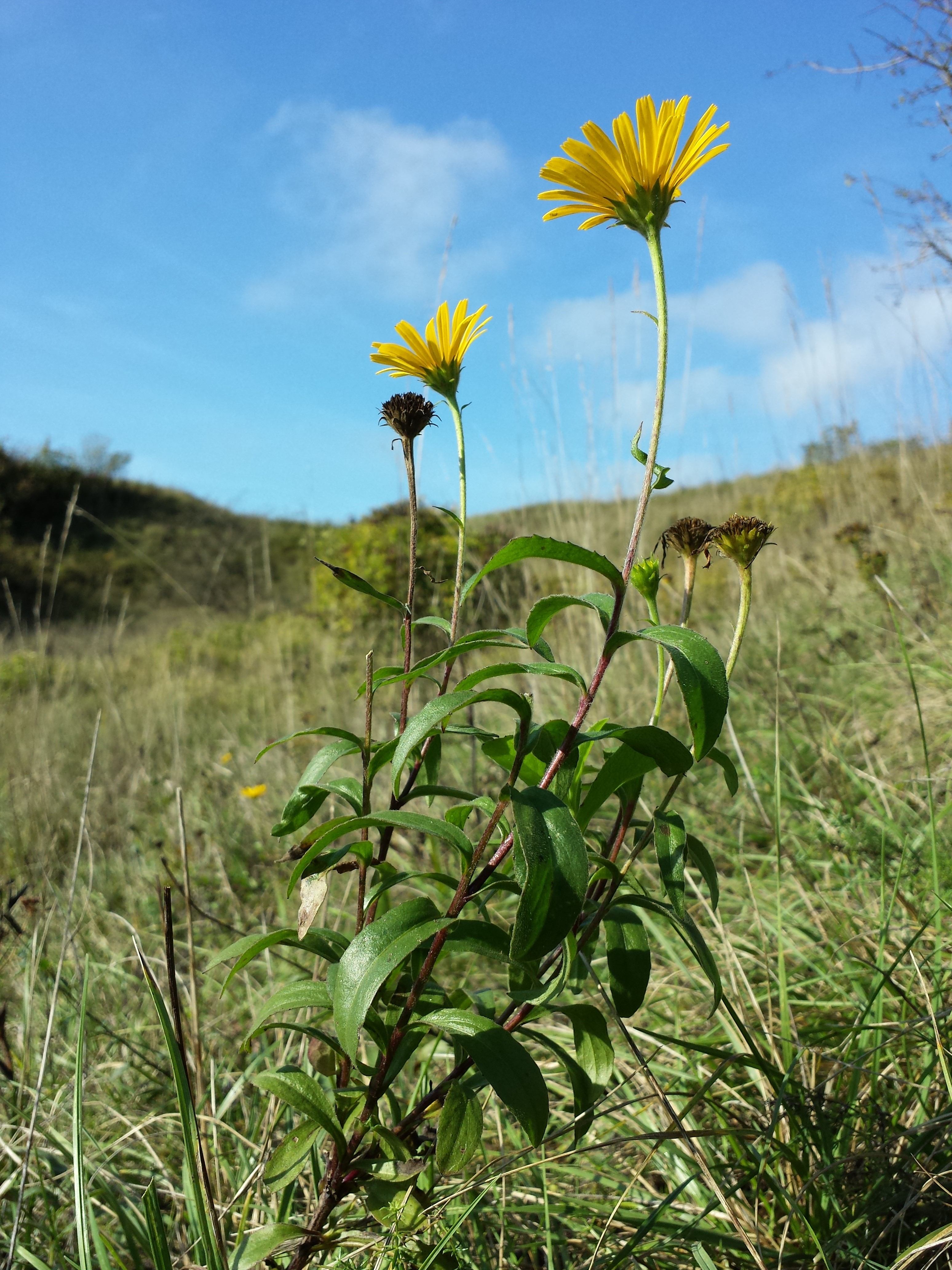 Habitus Taxon: Buphthalmum salicifolium (sensu Fischer et al. EfÖLS 2008 ISBN 978-3-85474-187-9) Location: Waschberg near Leitzersdorf, district Korneuburg, Lower Austria - 388 m a.s.l. Habitat: Semi dry grassland